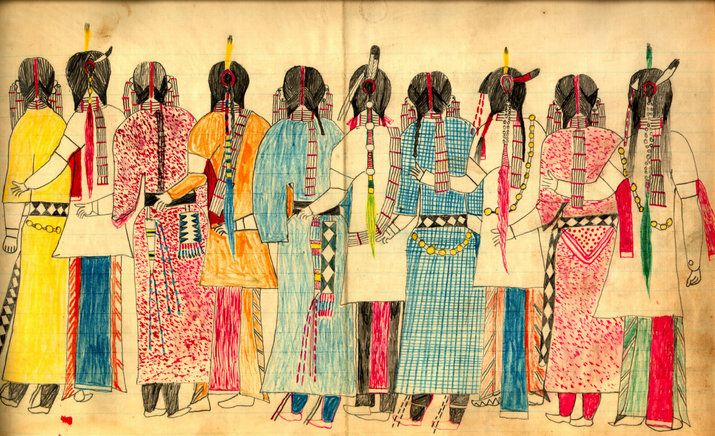 A ledger drawing by Lakota artist and leader Black Hawk, born ca. 1832. This work also appears in Janet Catherine Berlo's Spirit Beings and Sun Dancers: Black Hawk's Vision of the Lakota World (New York, NY: George Braziller in association with the New York State Historical Association, 2000)